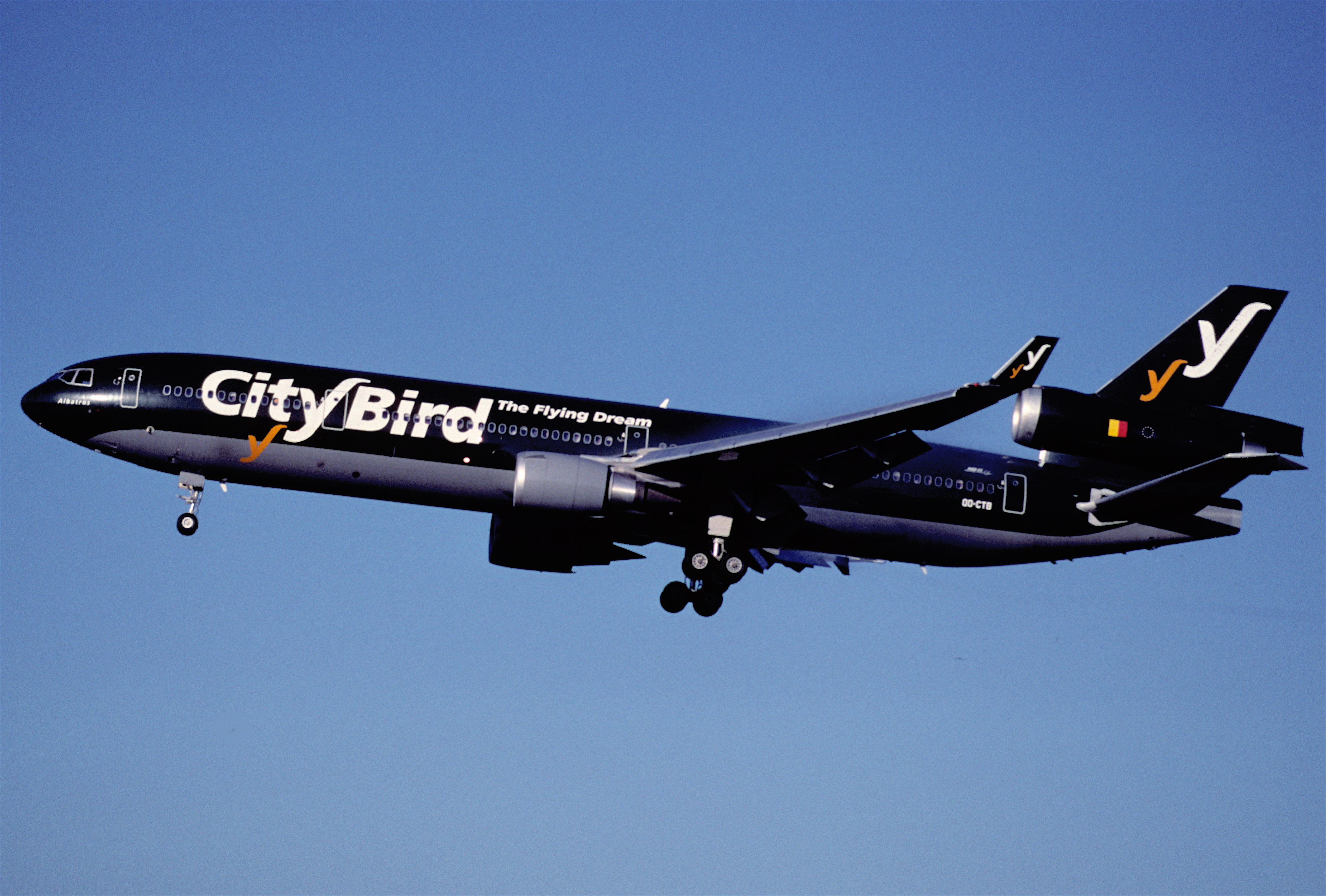 101ad - City Bird MD-11; OO-CTB@ZRH;01.08.2000